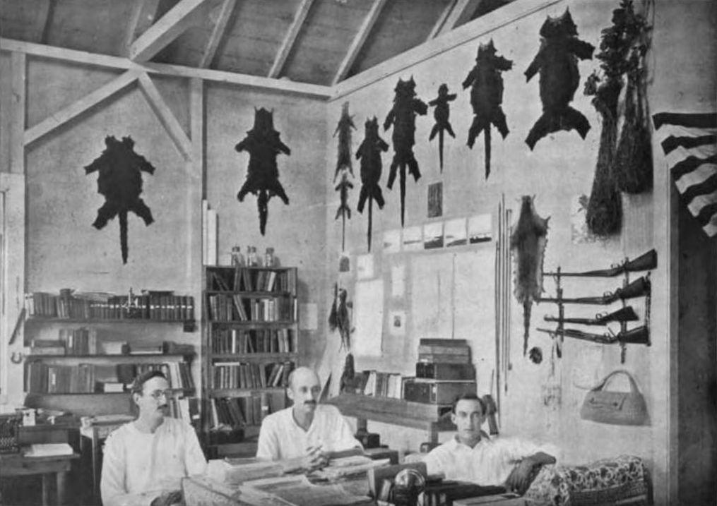 Paul Griswold Howes, William Beebe, and George Inness Hartley in the laboratory of Kalacoon, their tropical research station in British Guiana.